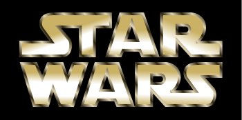 Star Wars logo.